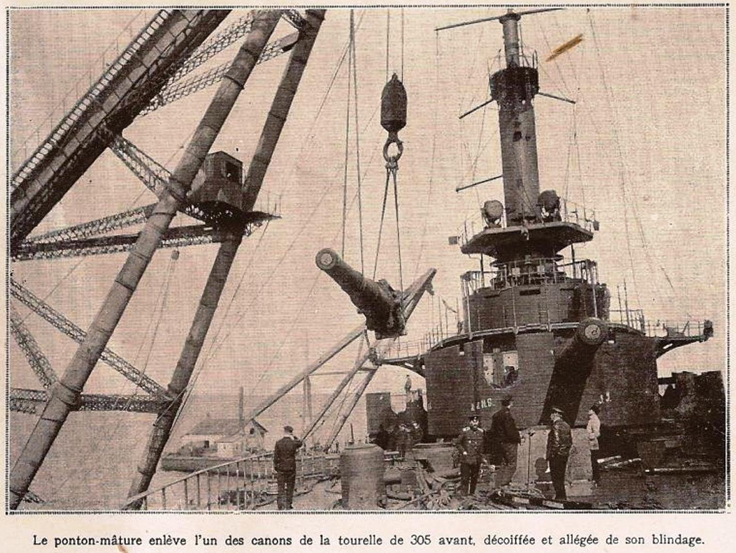 A floating crane removing one of the 305mm guns from the forward turret on the French battleship Mirabeau off Sevastopol in 1919. The ship needed to be lightened considerably after running aground during the French military intervention in the Black Sea.